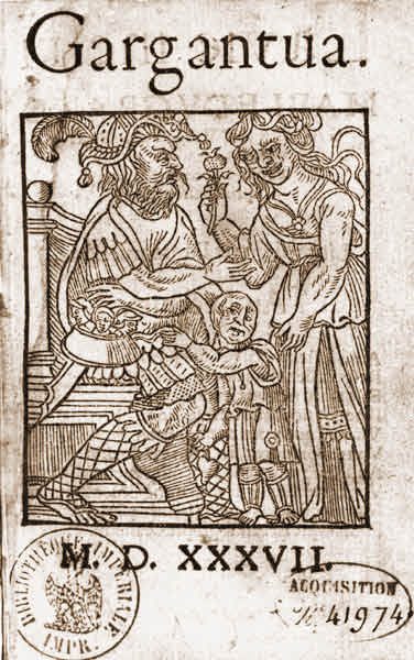 Title page of François Rabelais, Gargantua (Lyon: Denis de Harsy, 1537).